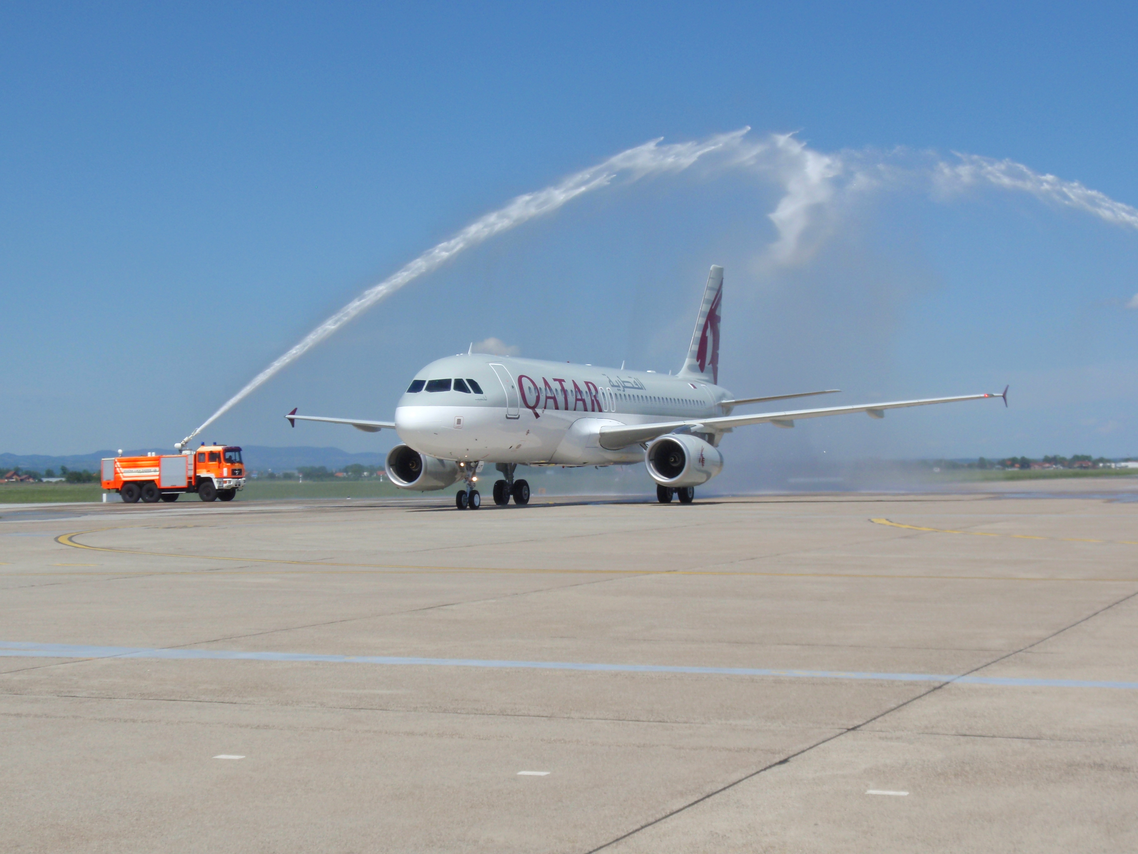 Welcome to Qatar airways at Zagreb airport.